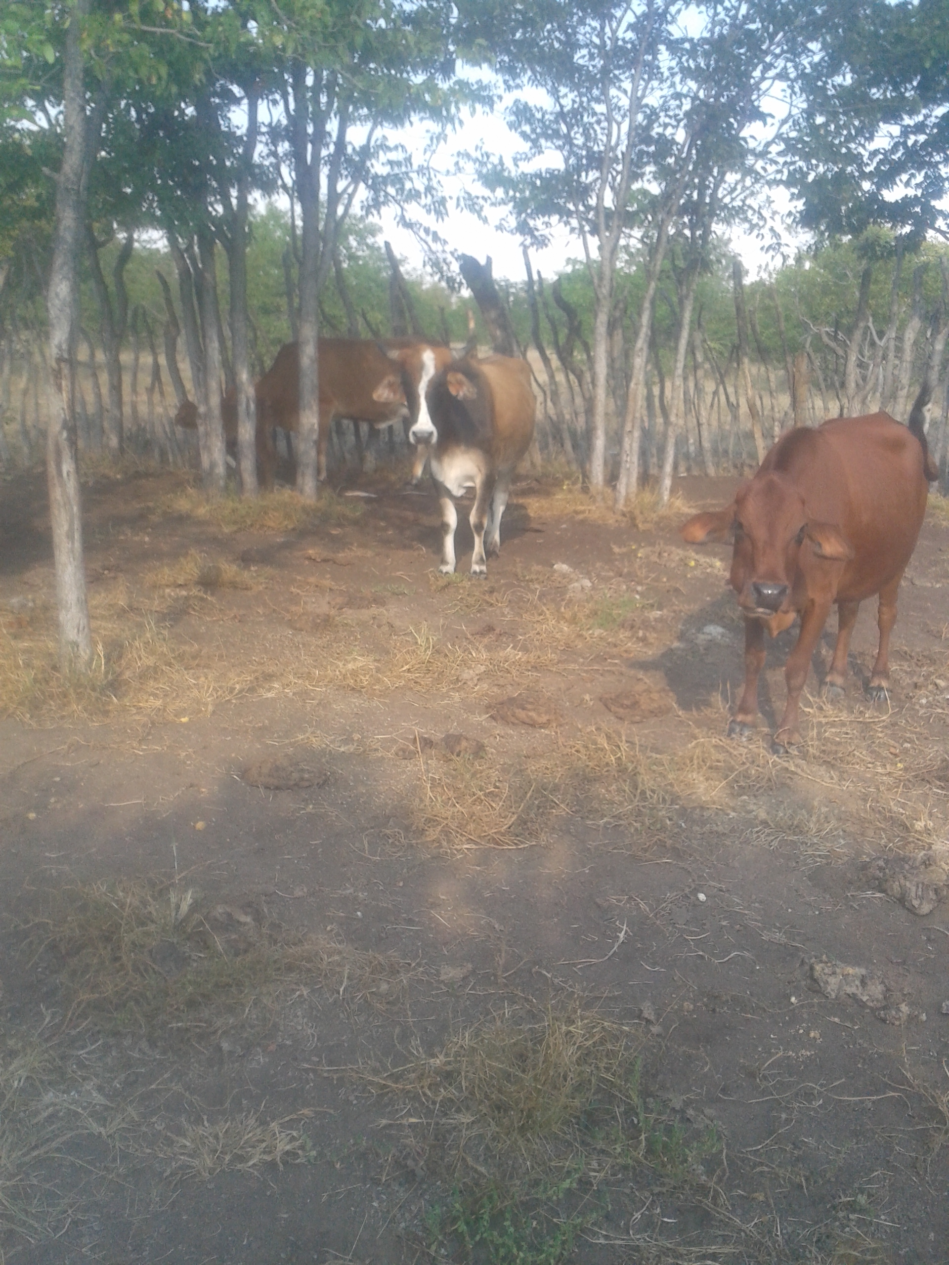 A typical young farmers cattle.Cattle rearing is the most prominent form of agriculture in the southern region as it provides both food security and a source of income quickly as compared to other methods. This is an image with the theme "Play" from: Botswana